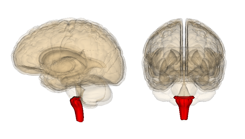 medulla oblongata. Images are from Anatomography maintained by Life Science Databases(LSDB).